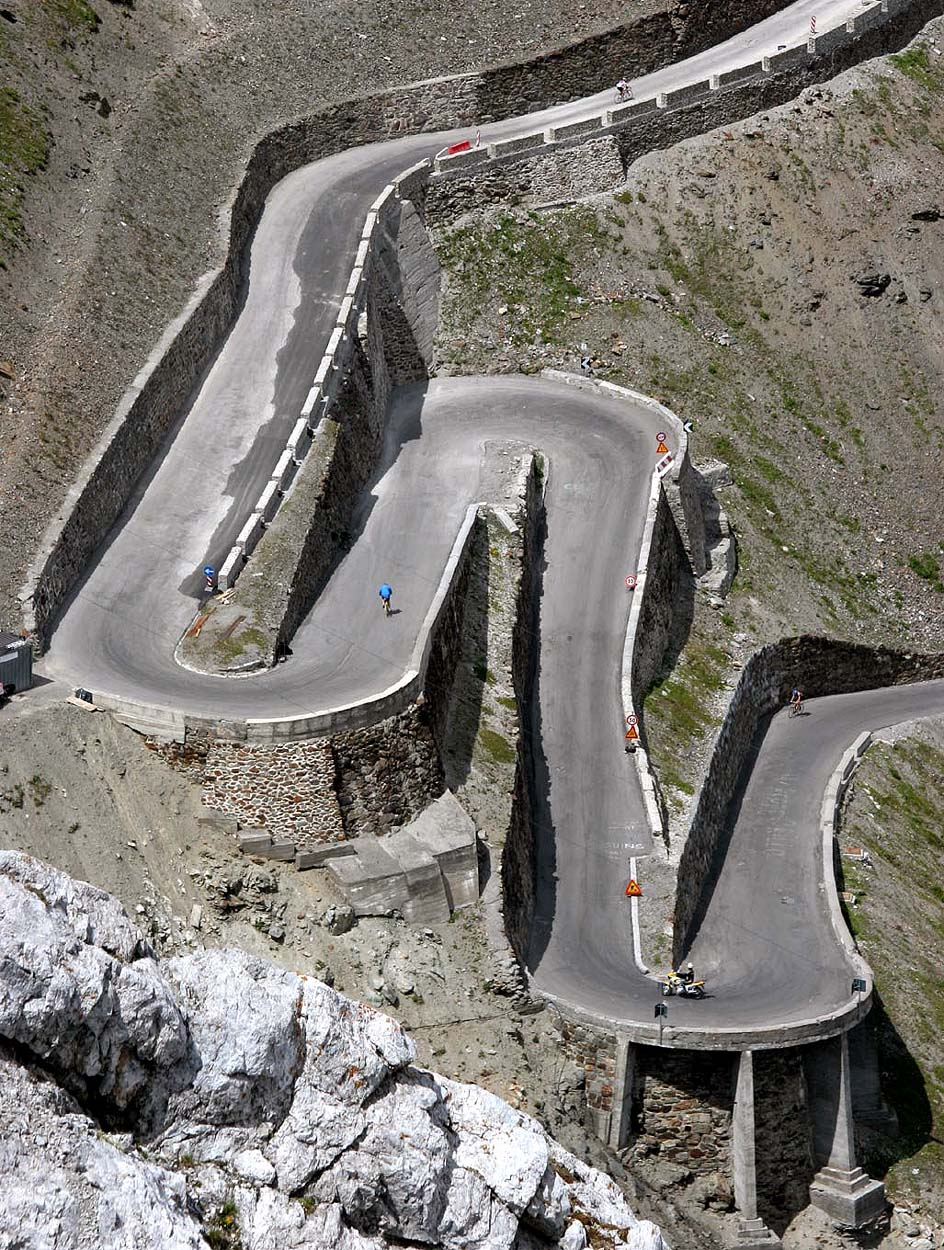 Hair-pin bend 2, 3 and 4 of a total of 48 bends of the eastward Stilfserjoch drive-up, South Tyrol